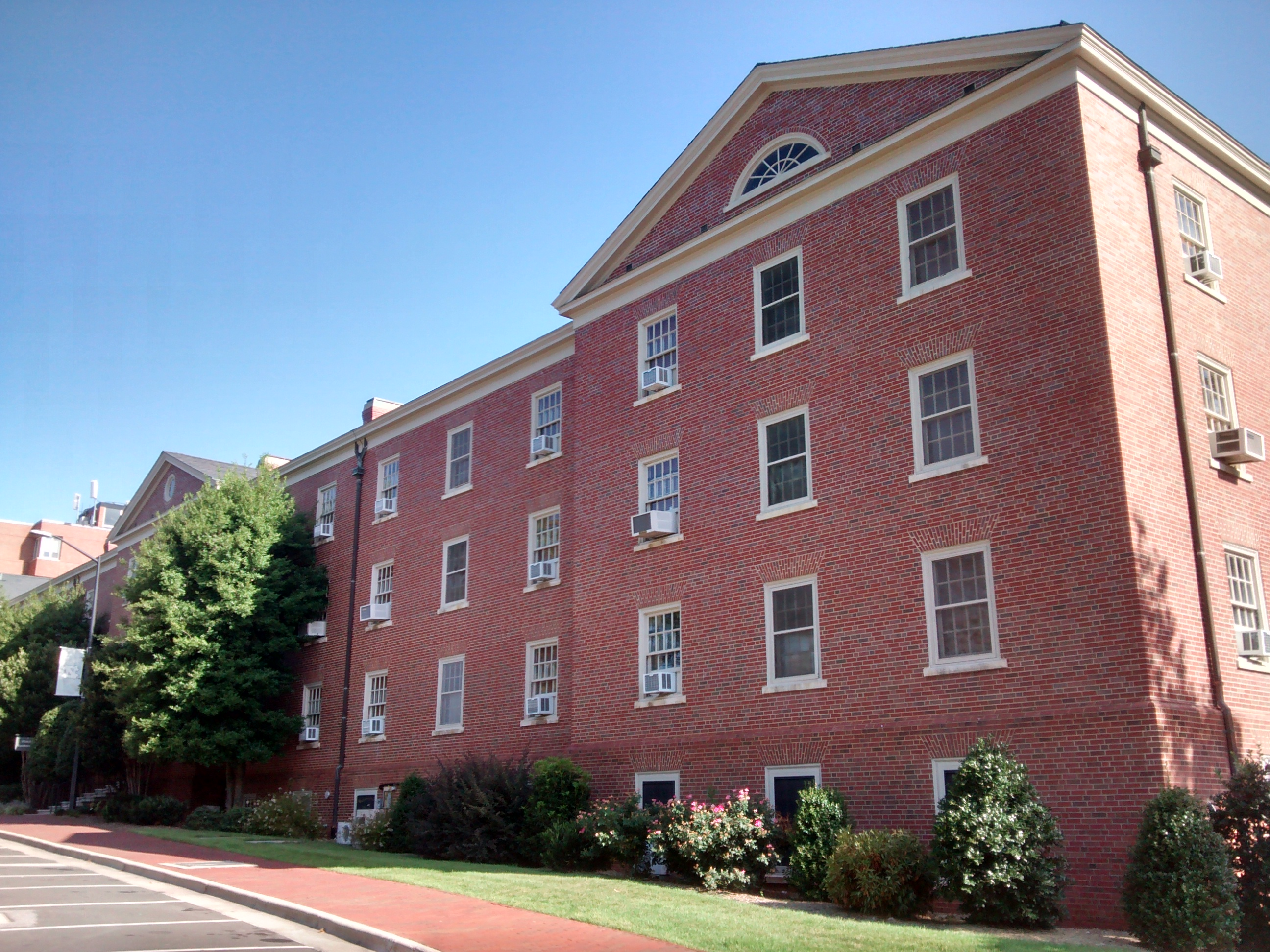 Teague Residence Hall at the University of North Carolina at Chapel Hill.